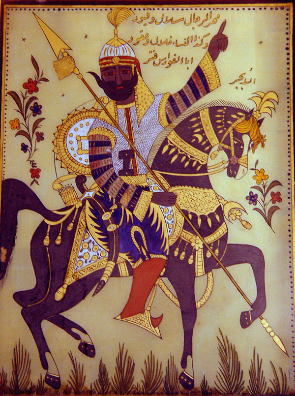 Antarah ibn Shaddad, old manuscript